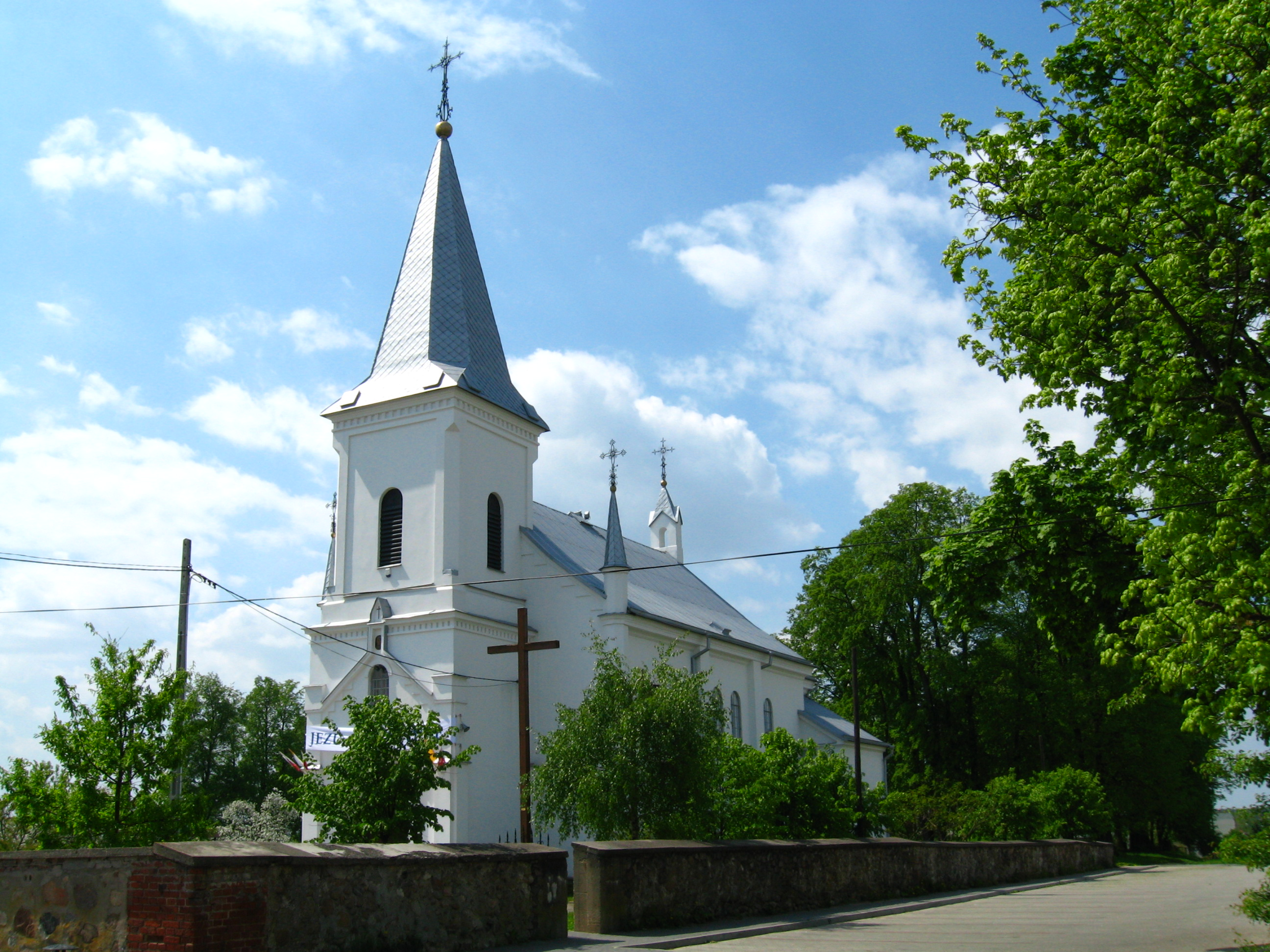 Roman–catholic parish church of Transfiguration of Jesus — brick, neo-baroque church built in years 1880-1883 by project of Romuald Lenczewski, destroyed in World War II. in 1944 rebuilt. Until 1961 — parish church, in years 1961-1983 branch church, then again parish